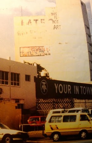 A photo of the graffiti This Is Not Art, on Latec House, then tallest most building in Newcastle. Concept by Damien Frost, executed by Leroy Black, photographed by Ian Sweeny.